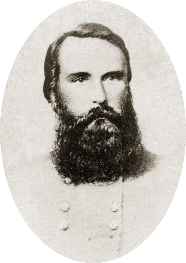 General James Longstreet, Confederate States Army. Recto: [imprinted] Entered according to Act of Congress in the year 1862 by E. Anthony in the Clerk's office of the District Court of the U. S. for the So. District of New York. Verso: Published by E. & H. T. Anthony, 501 Broadway, New York. Manufacturers of the best photographic albums.